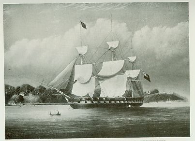 Image of the frigate Winchester, British Navy